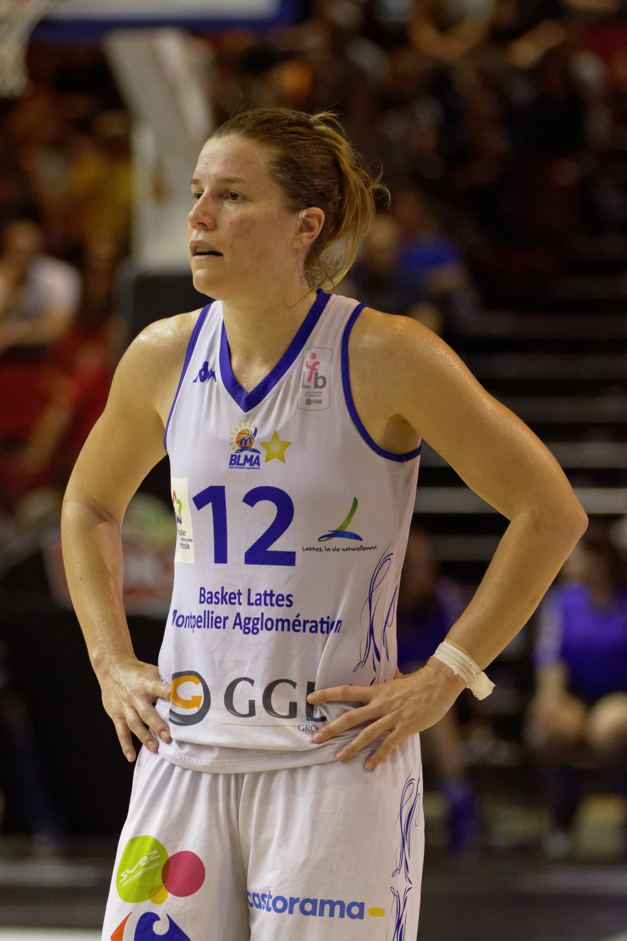 French basketball player Gaëlle Skrela during the final of the French Basketball Cup, Lattes-Montpellier vs Bourges, 2nd May 2015.